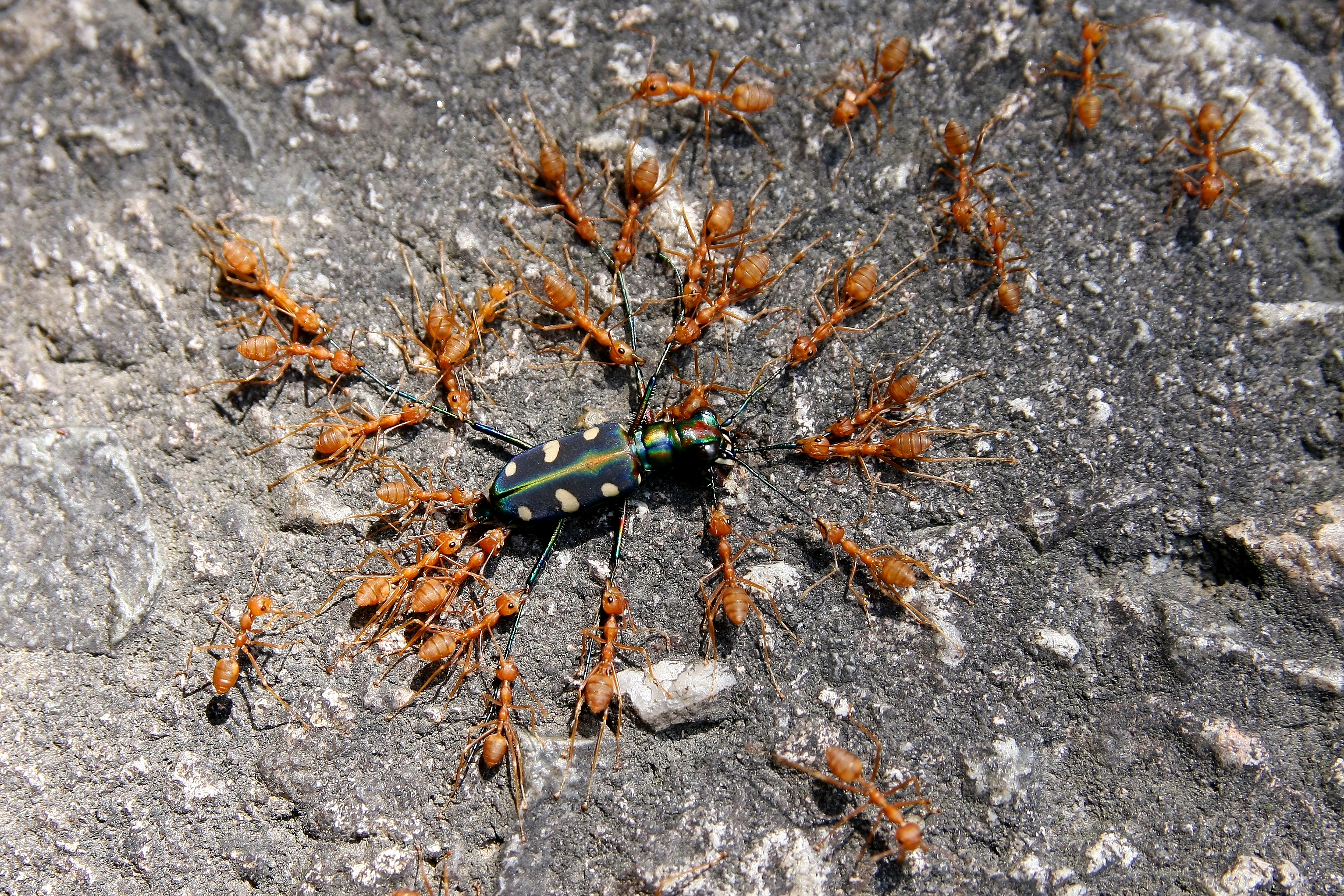 Ants fighting a beetle